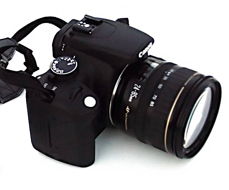 A Canon EOS 350D (Rebel)